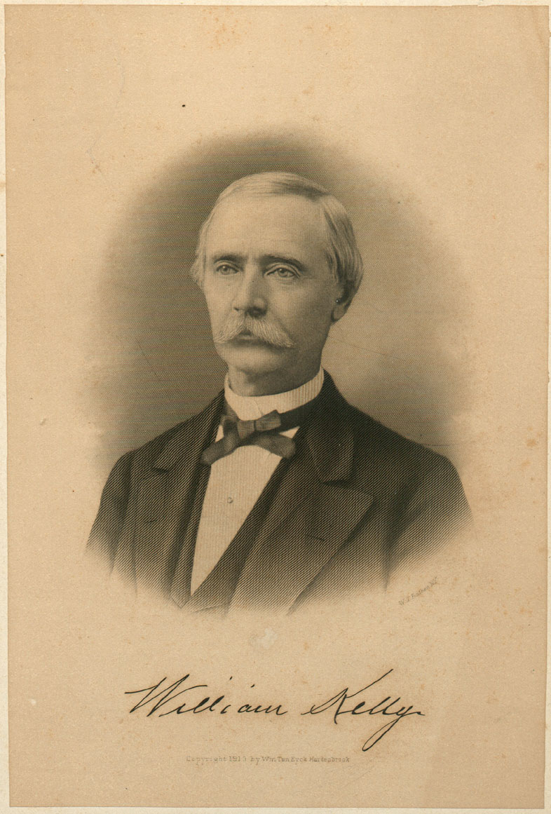 William Kelly (1811 - 1888), american metallurgist and inventor of a process for refining pig iron, which was a precursor of the Bessemer converter.